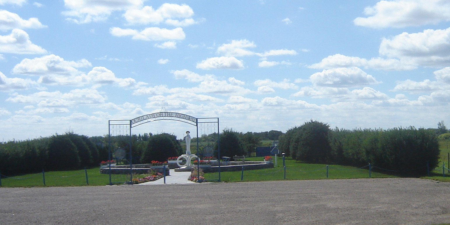 Our Lady of the Highway Vegreville, Alberta